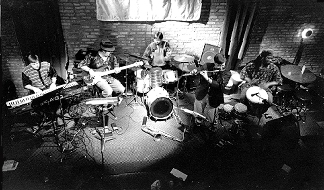 FLIPPOMUSIC at the Jazz Buffet, Chicago, 1999. Dave Flippo-keys, Steve Hashimoto-bass, Dan Hesler-flute, Aras Biskis-drums and Hamid Drake-percussion.